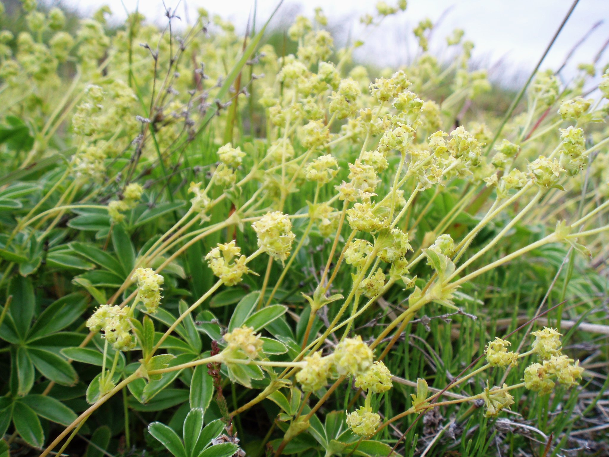 Alchemilla alpina nearby Seyðisfjörður in Iceland